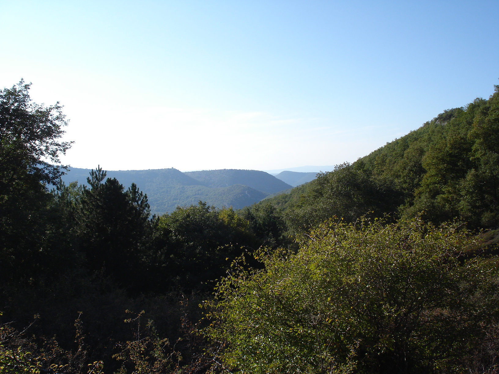 Bosque de Villaescusa, dentro del Parque Natural de Hoces del Alto Ebro y Rudrón. Al fondo la Hoya de Huidobro. Hayas y robles. Naturaleza en estado virgen.